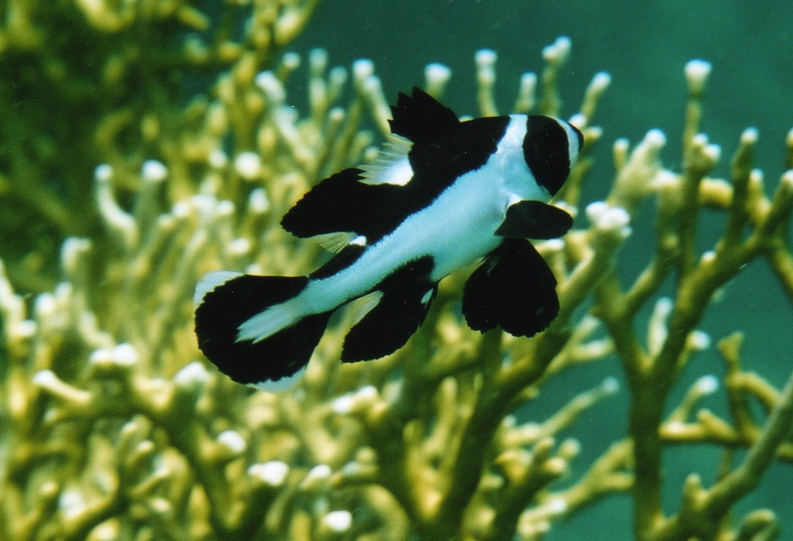 Young Macolor niger over the reef, egyptian Red Sea, near Al-Qusayr.